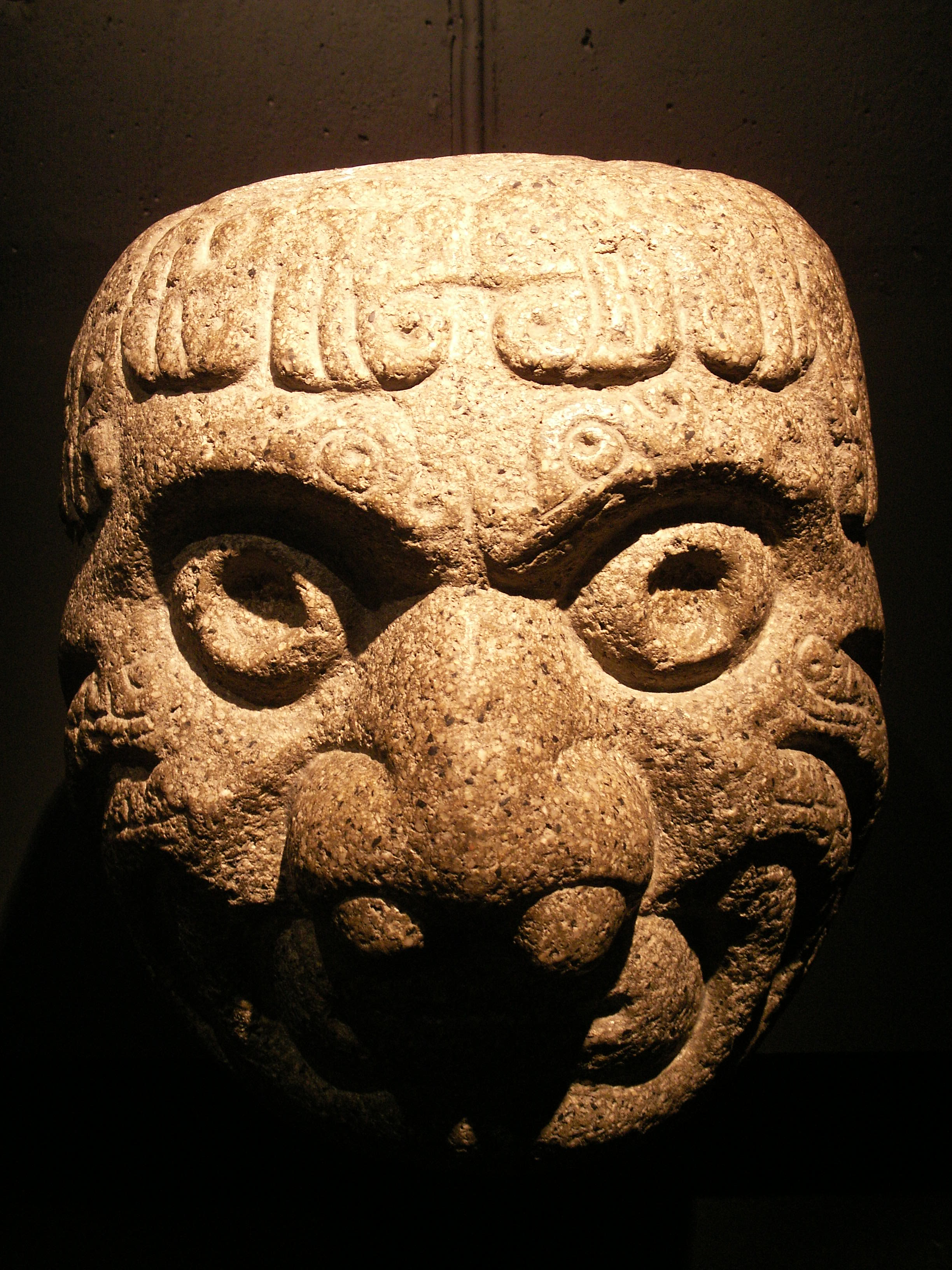 Photographed at the Museo De La Nacion in Lima, Peru by Jorge Mori.